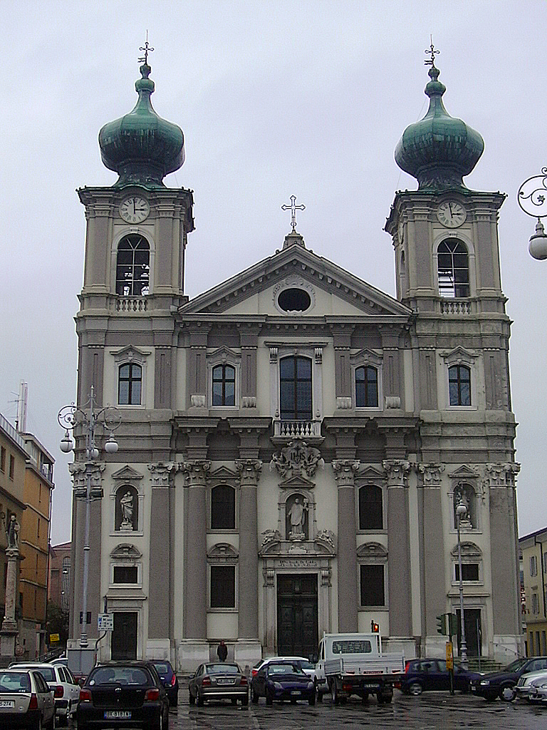 Church of Sant Ignatius in Gorizia.